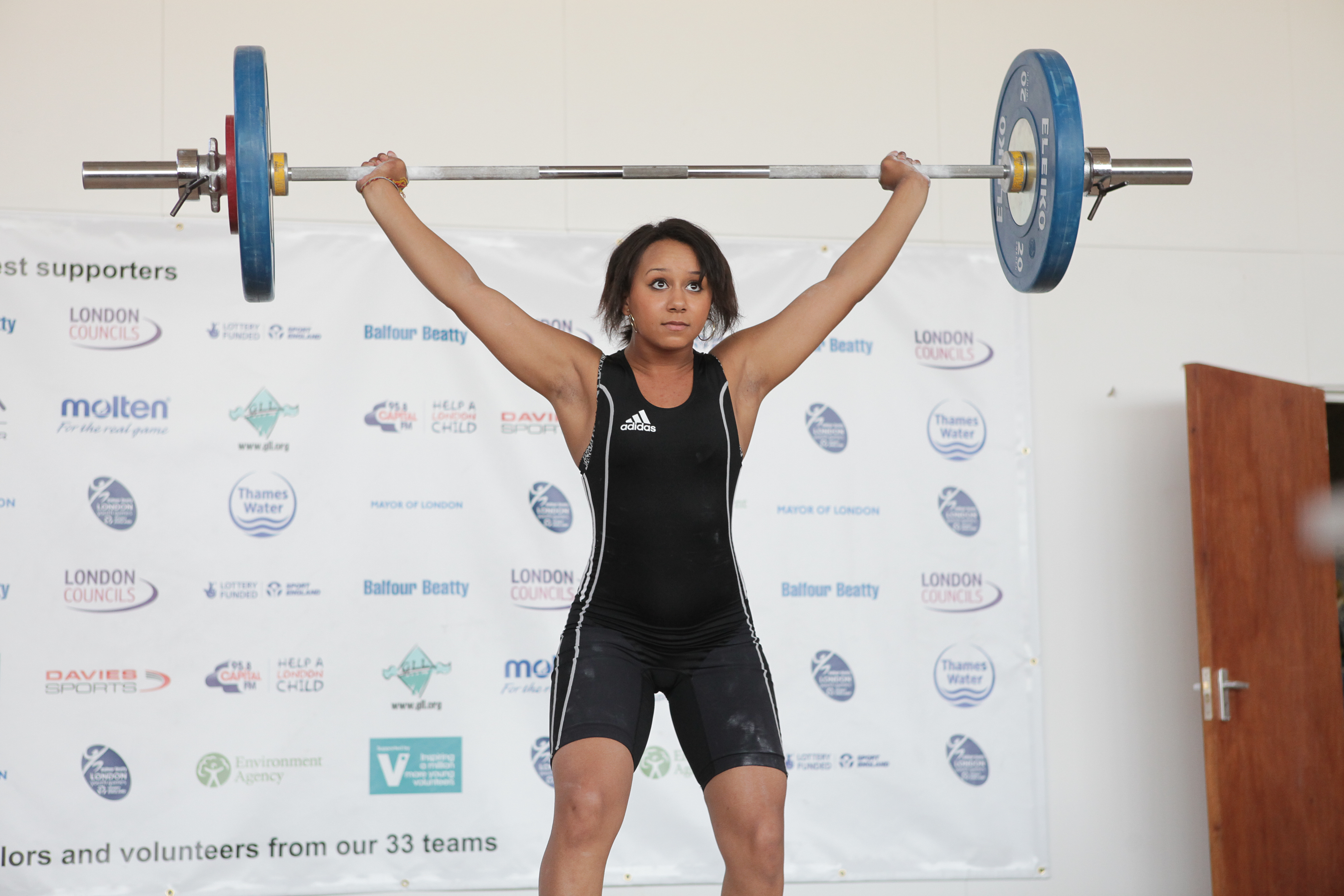 Zoe Smith competing at LYG